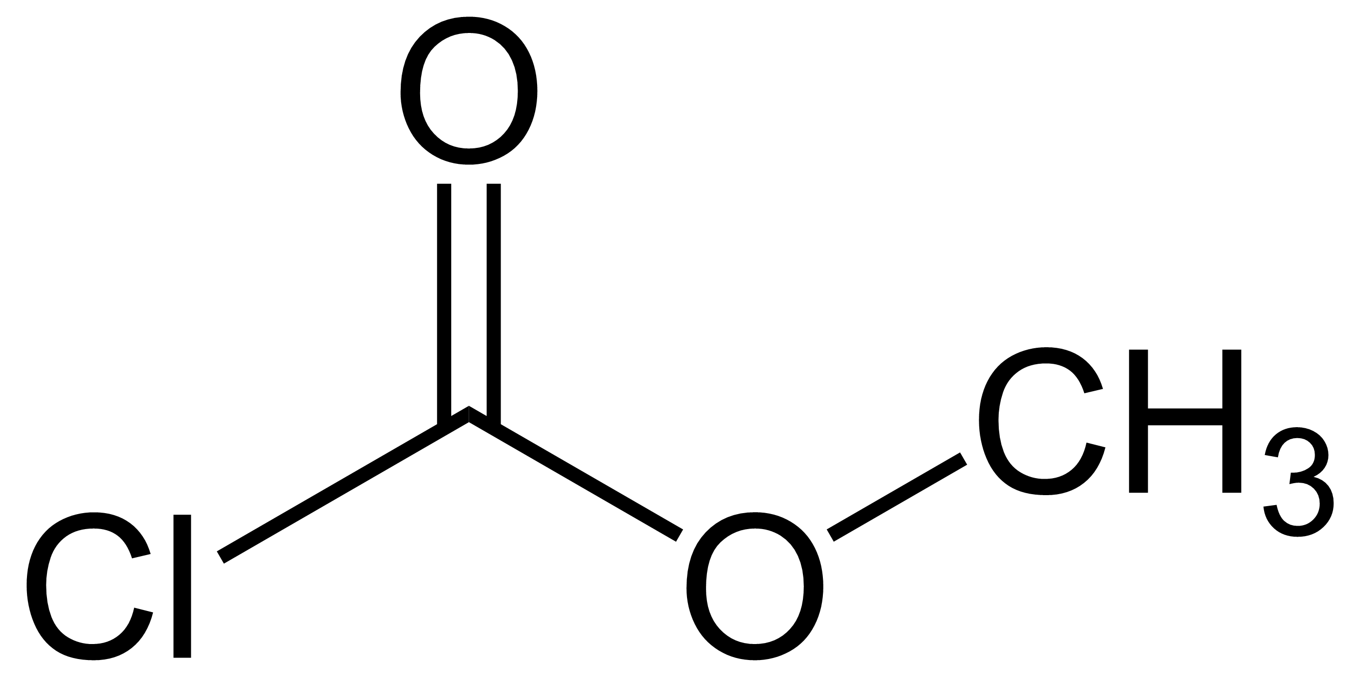 Skeletal formula of methyl chloroformate